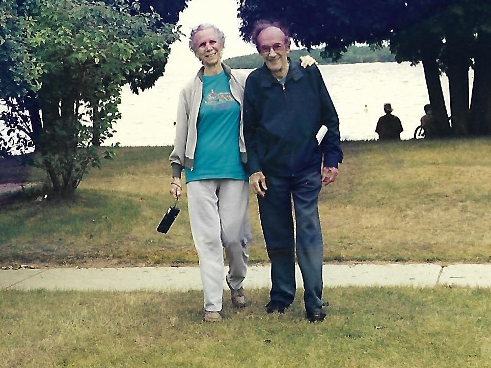 Bernard Becker with wife Janet